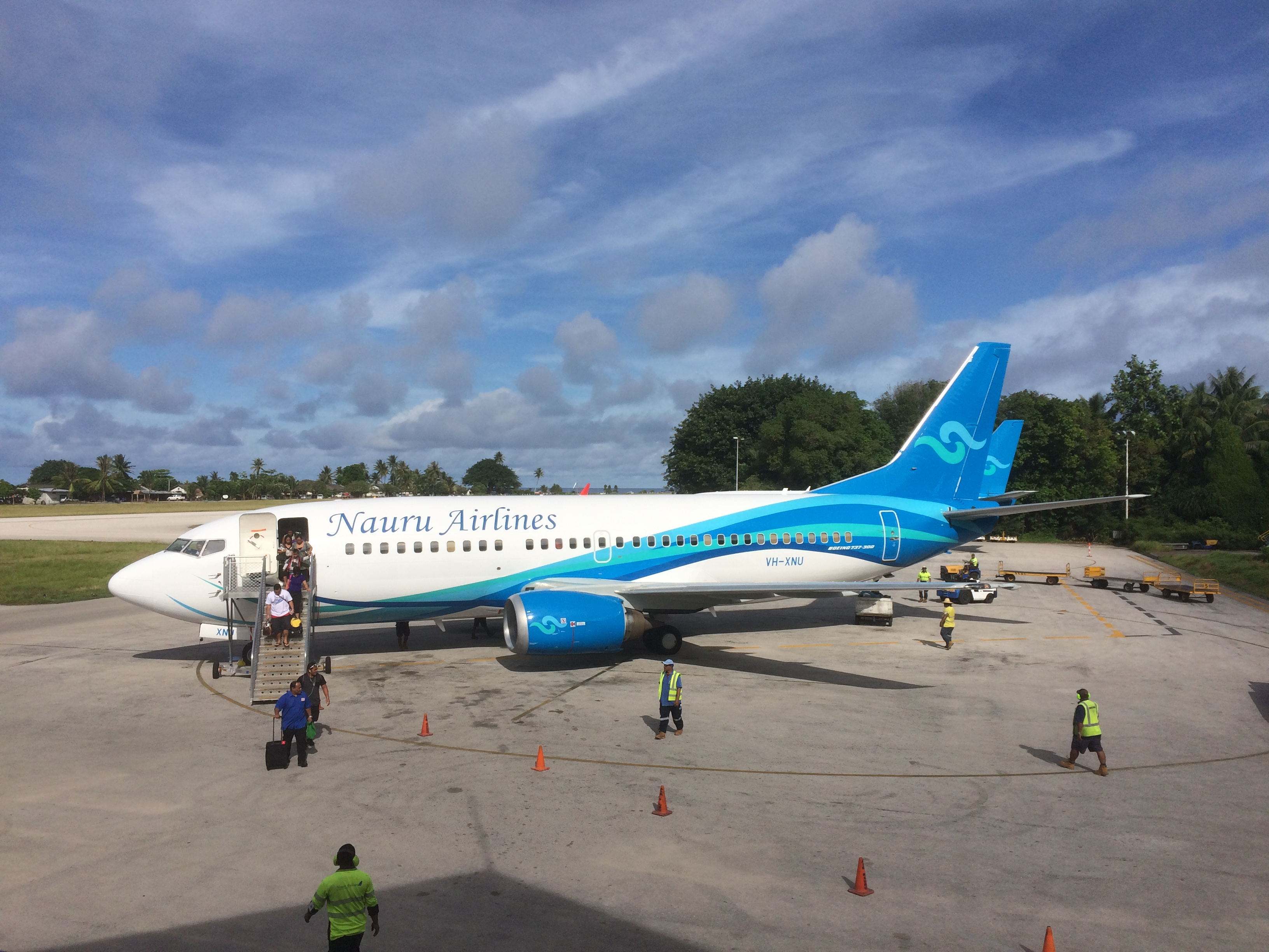 Nauru Airlines Boeing 737-300 (VH-XNU) at Nauru International Airport